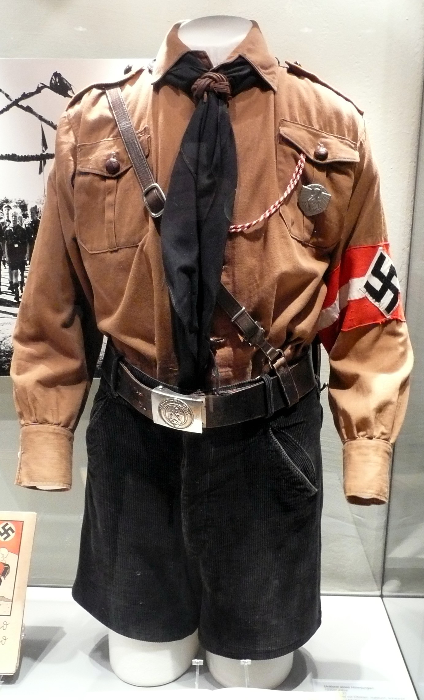 Uniform of the Hitlerjugend, comprising brown shirt with insignia/cord/armband/badge, short corduroy pants, leather belt with buckle, shoulder strap, neckerchief with woggle, and knife; Oldenburg State Museum for Art and Cultural History